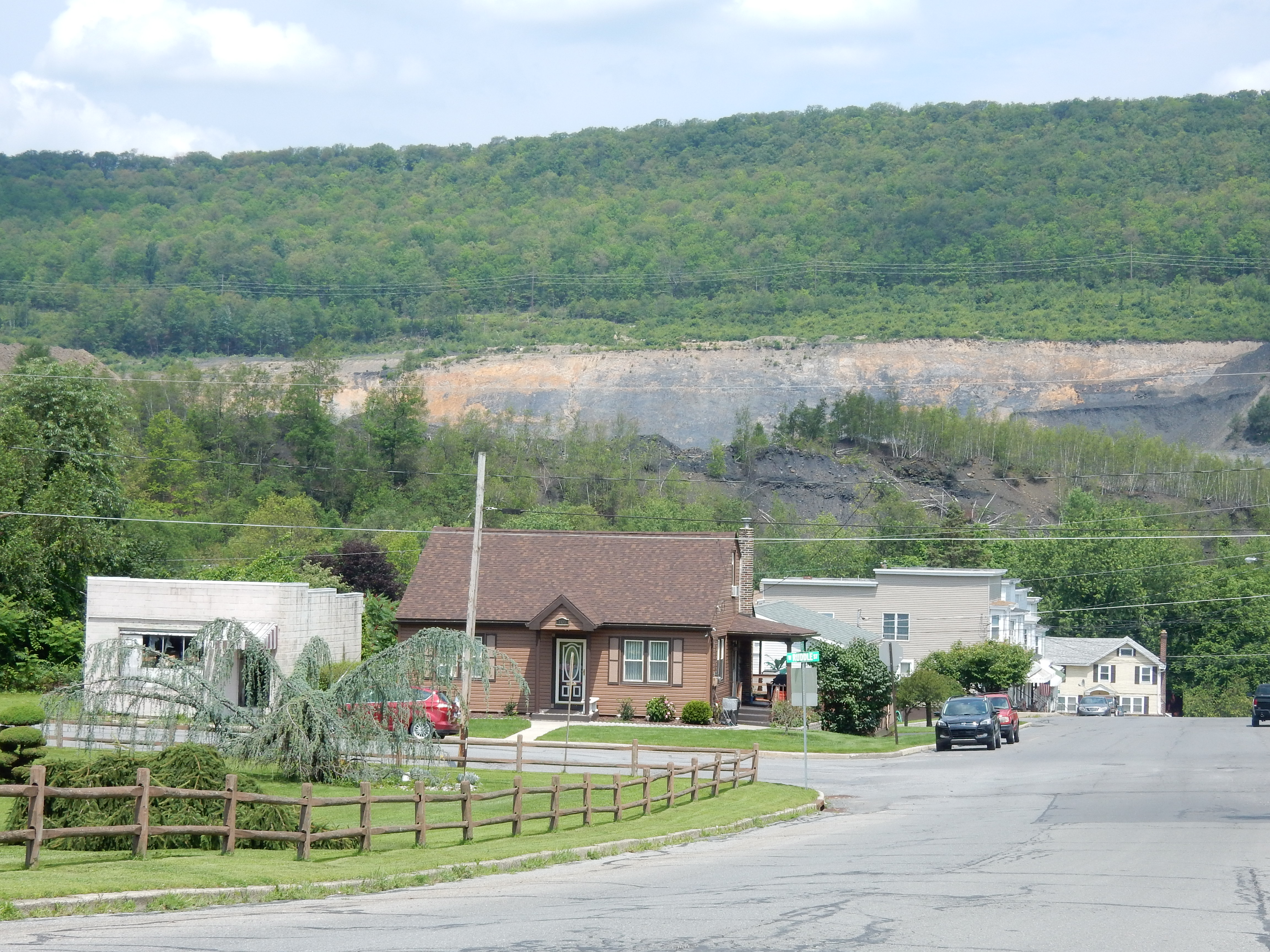 5th St., Coaldale, Schuylkill County, Pennsylvania. Looking north toward W. Water St. (U.S. Route 209).